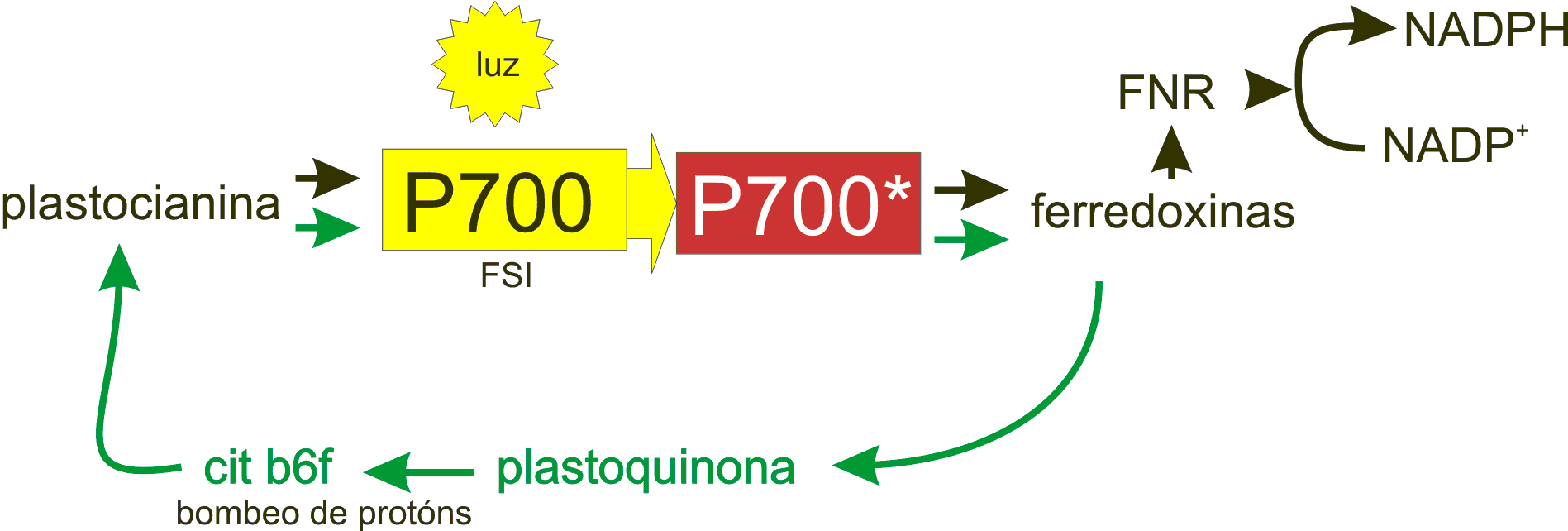 diagram of cyclic photosynthesis